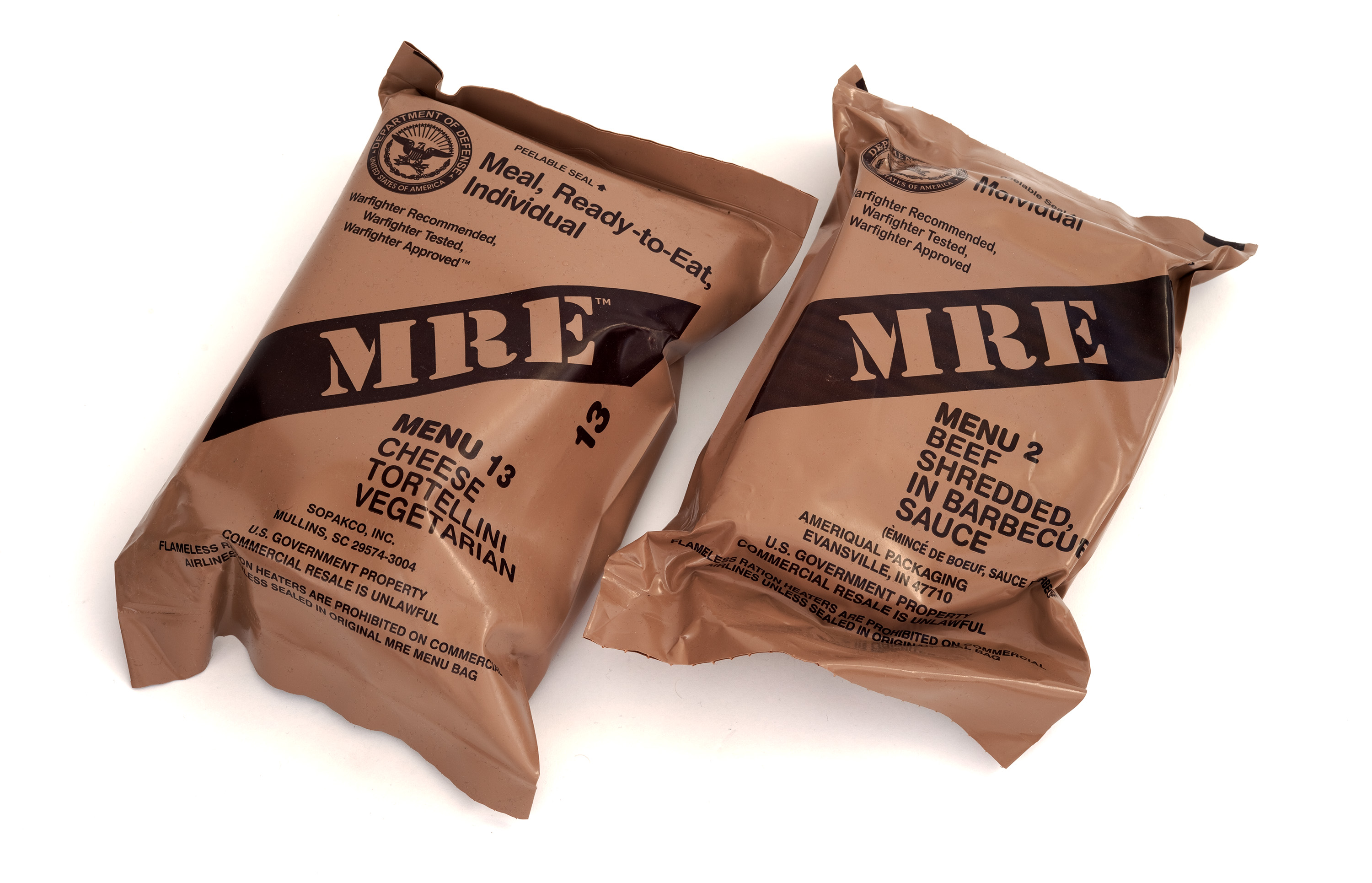 A pair of MREs.